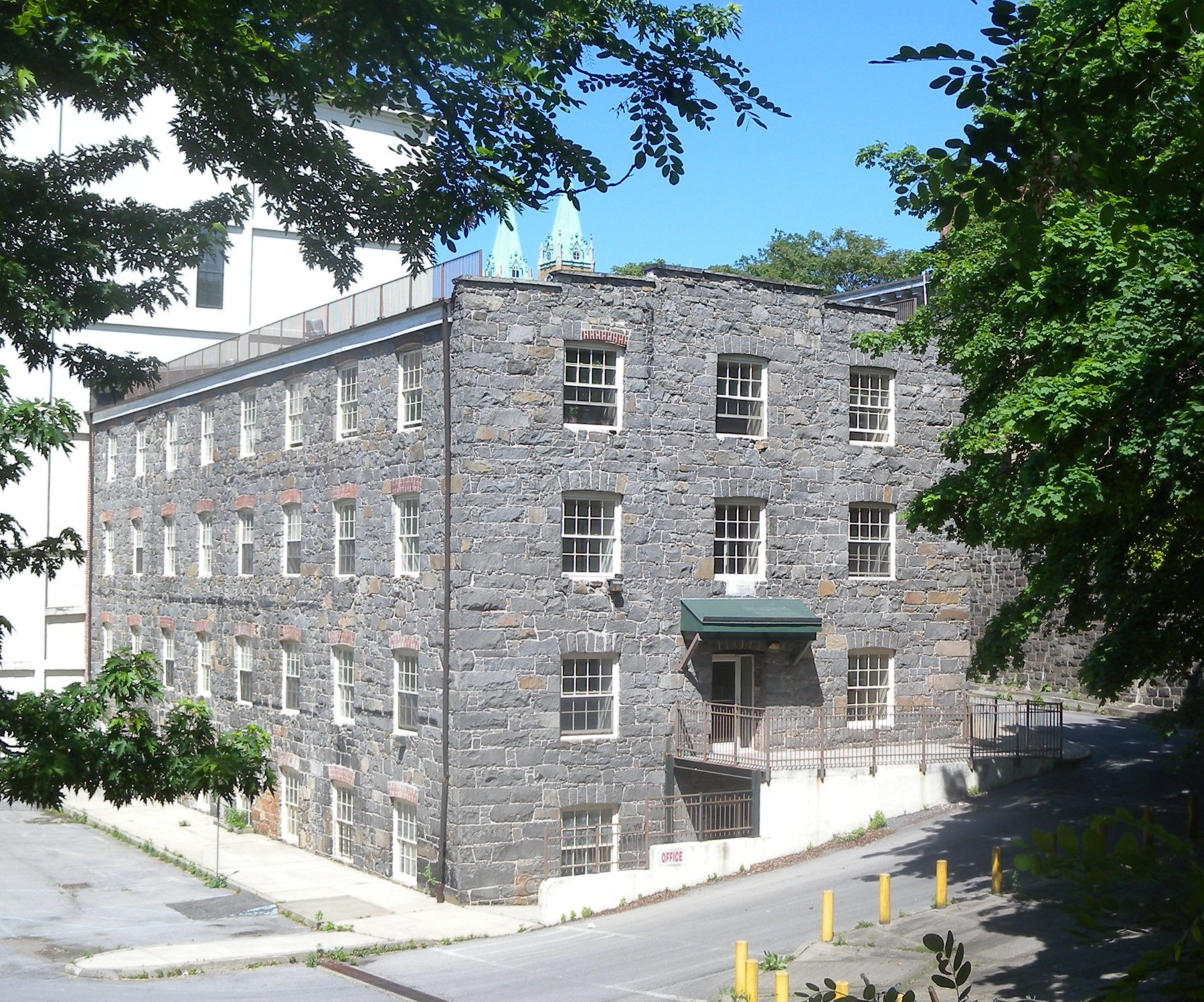 Looking northeast from bridge over Nepperhan Creek, at former mill on a sunny afternoon.